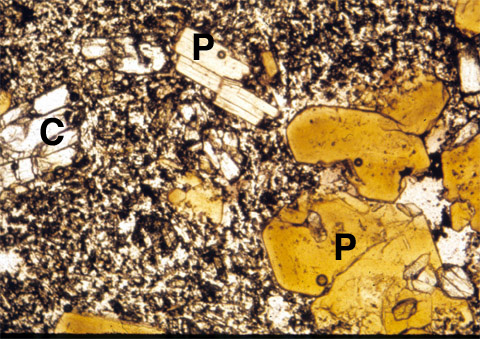 own work